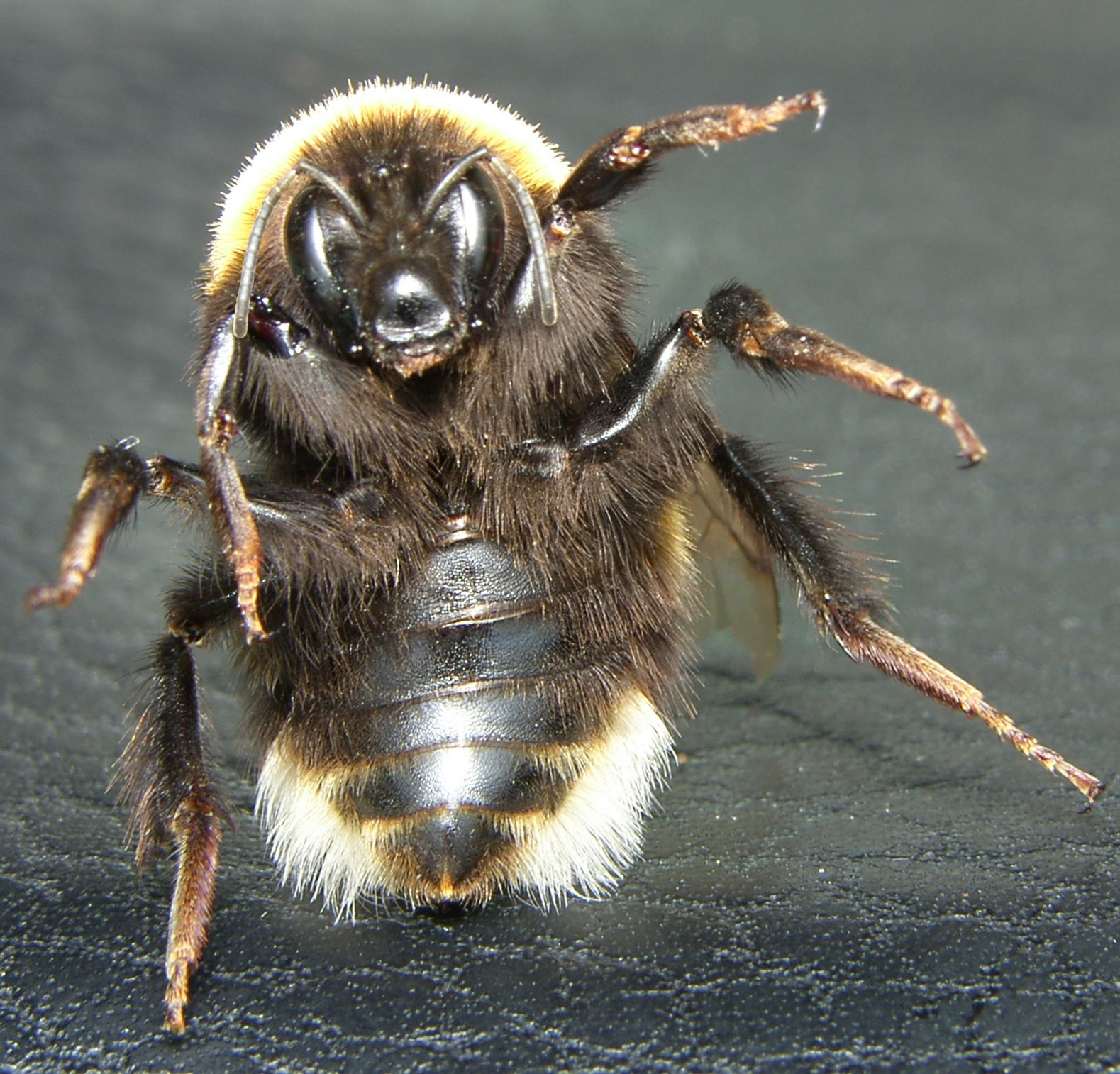 Buff-tailed Bumblebee or Large Earth Bumblebee (ventral)